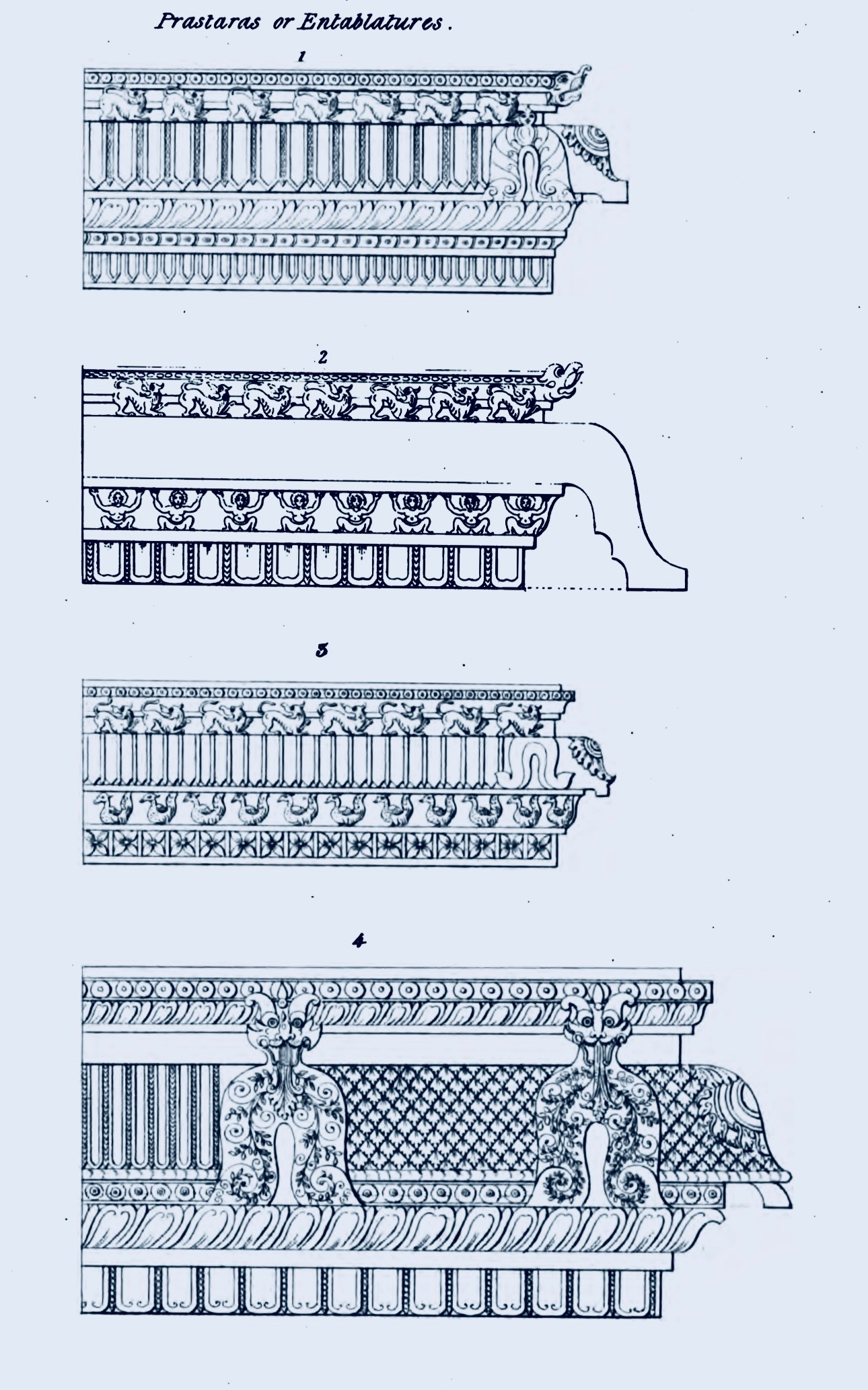 This is a photo of sketches made by Ram Raz and published in 1834. The source images can be found in Ram Raz (1834) Essay on the Architecture of the Hindus, Royal Asiatic Society of Great Britain and Ireland. A scholarly review of this source: Madhuri Desai (2012), Interpreting an Architectural Past Ram Raz and the Treatise in South Asia, Journal of the Society of Architectural Historians, Vol. 71, No. 4, pages 462-487